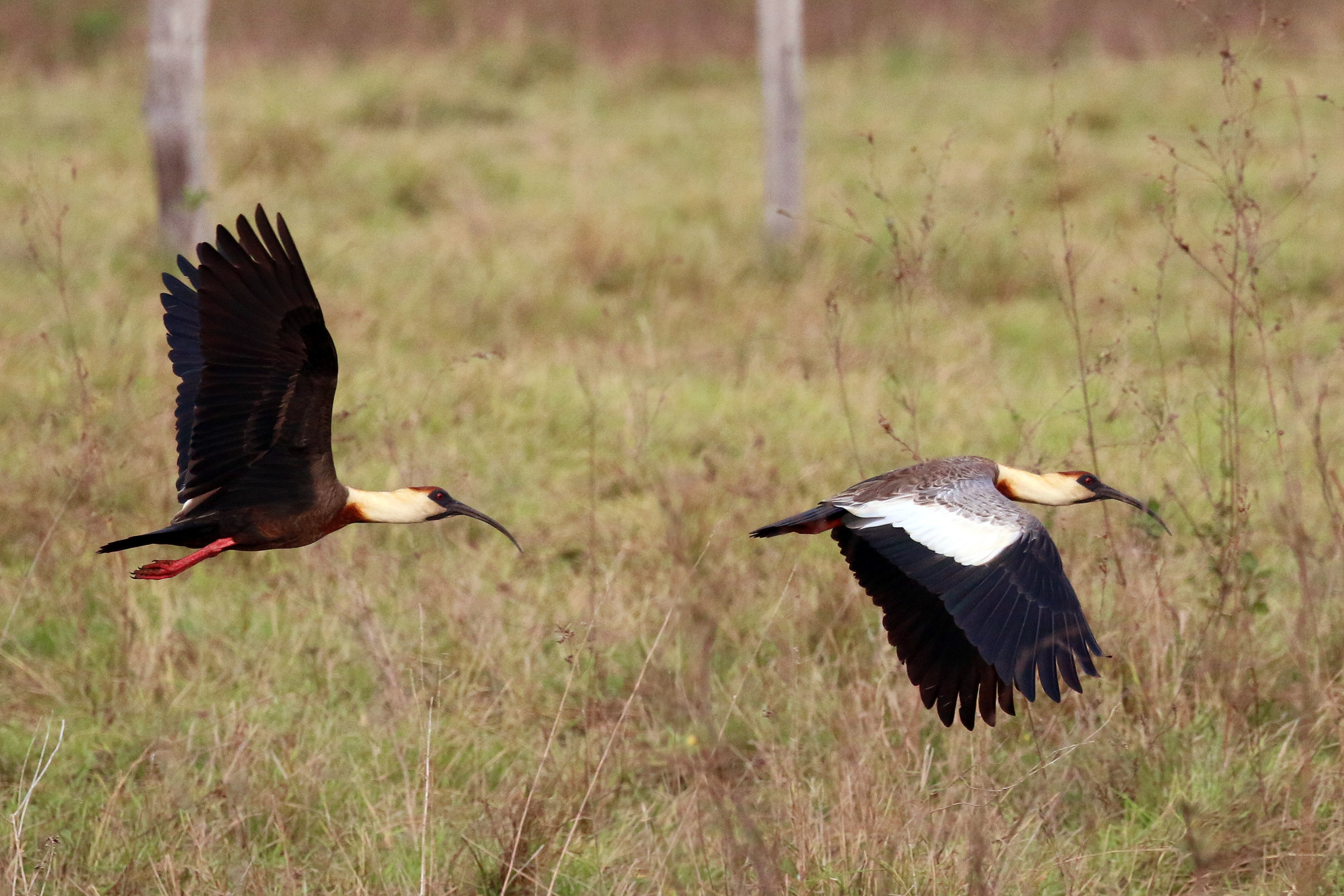 Buff-necked ibis (Theristicus caudatus) in flight - composite of two images